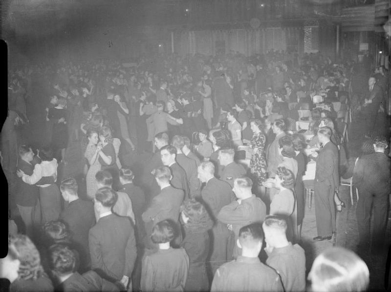 London in the Spring of 1941- Everyday Life in London, England Soldiers, Royal Air Force personnel and civilians are amongst the men and women enjoying an evening of dancing at the Hammersmith Palais de Danse in London in 1941.